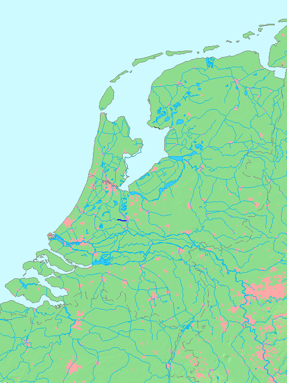 Location of a waterway (river/canal) in the Netherlends